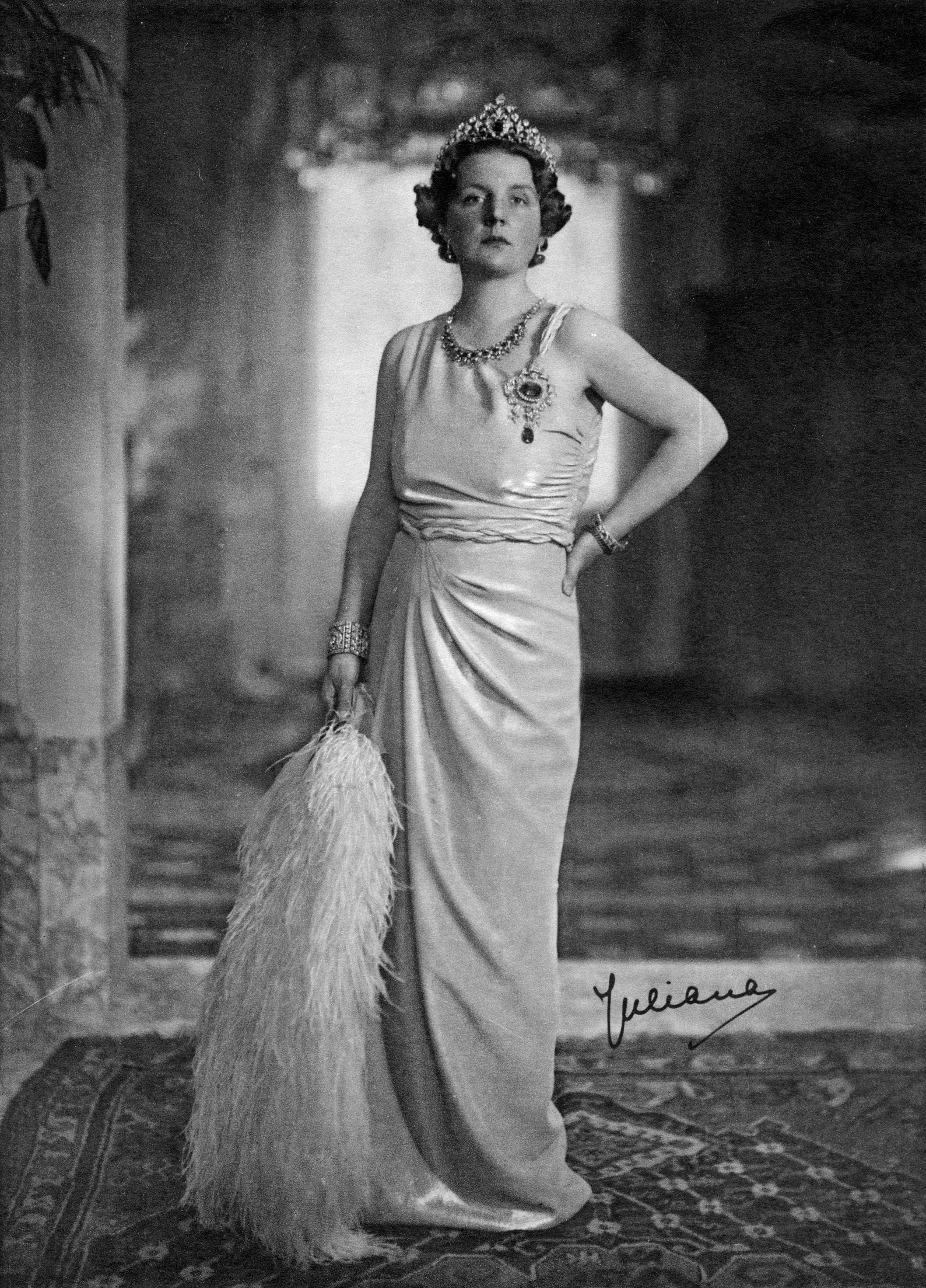 Official portrait of princess Juliana (with autograph of Juliana).